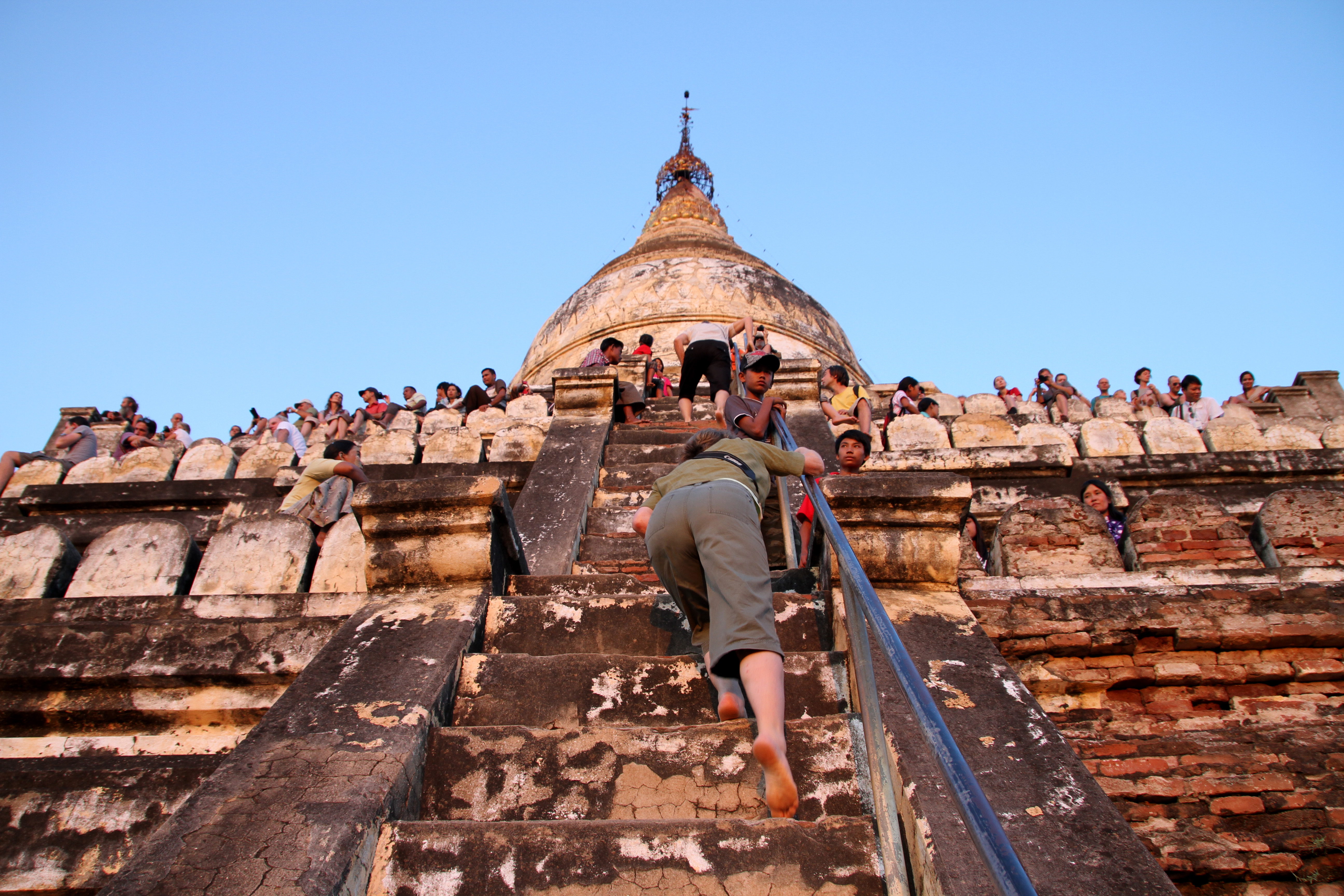 Shwesandaw stupa in Bagan, Myanmar.